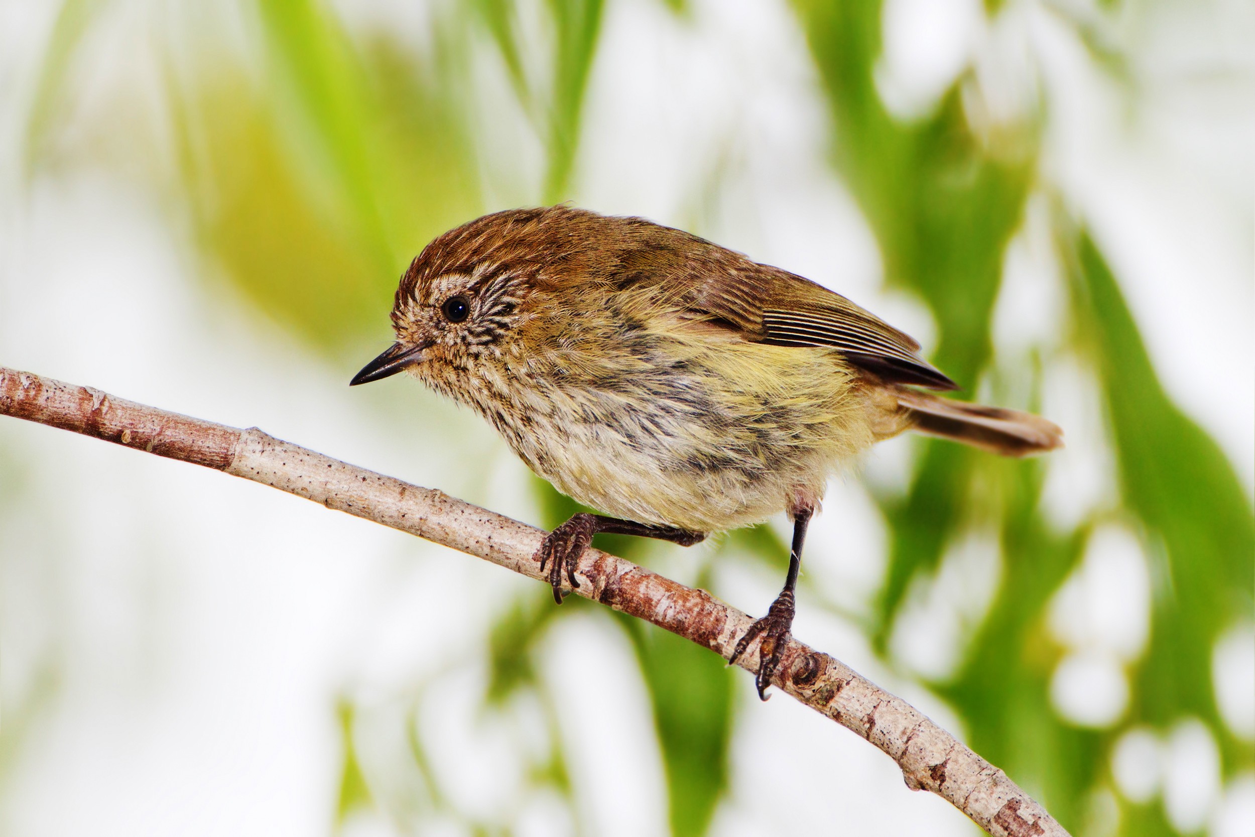 Striated Thornbill (Acanthiza lineata subspecies lineata), Captain's Flat, New South Wales, Australia